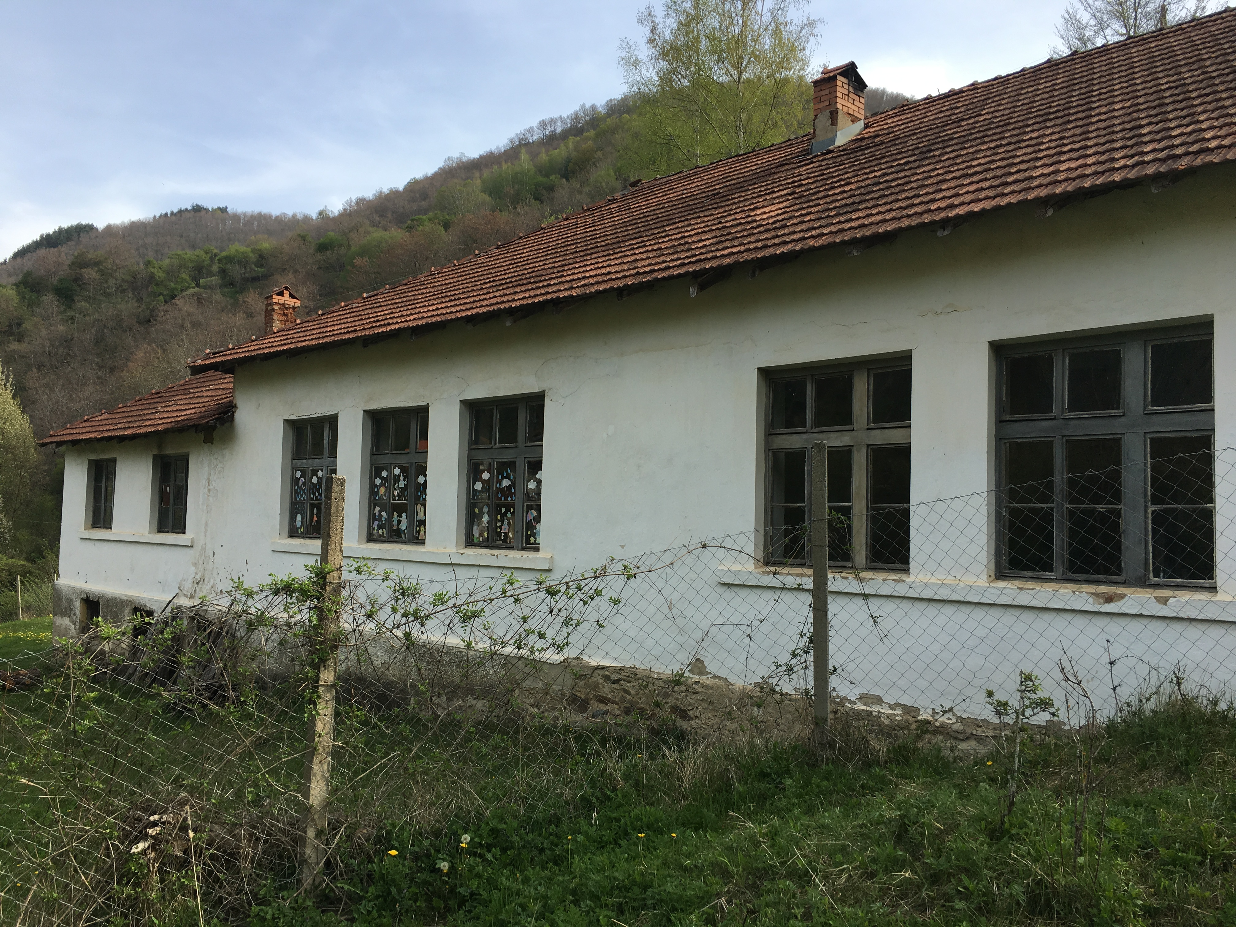 The primary school in the village of Stanci